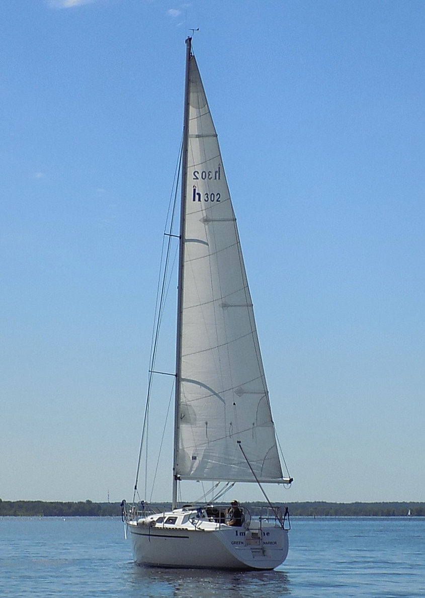 A Hunter 30-2 sailboat named Imagine.